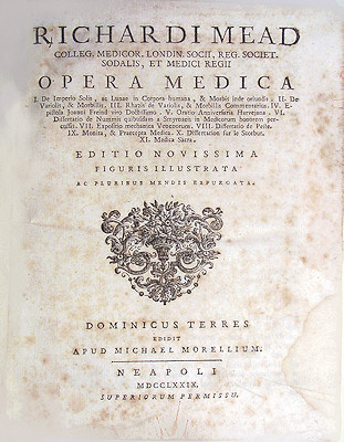 Richard Mead: Opera Medica, Complete Works